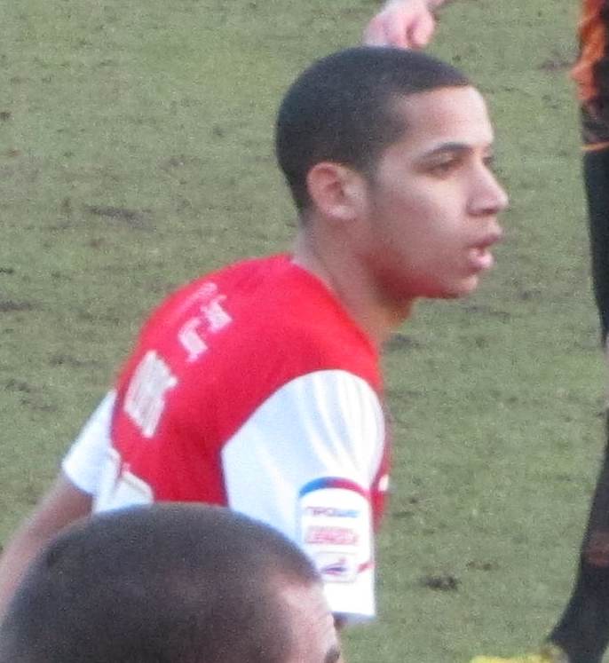 Curtis Obeng playing for York City against Barnet at Bootham Crescent, York on 16 February 2013